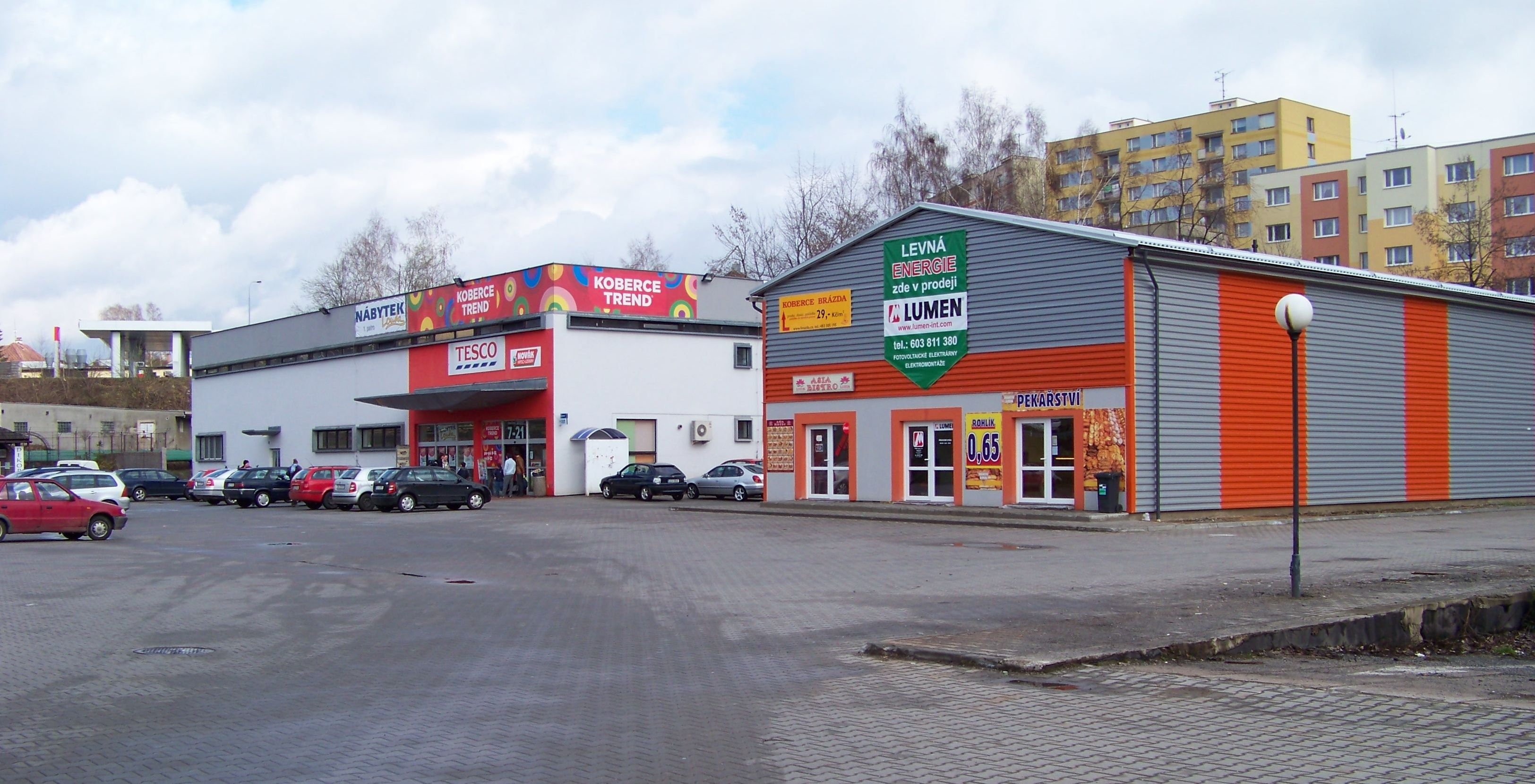 Jablonec nad Nisou, Liberec Region, the Czech Republic. U Přehrady Street, Tesco and other shops.